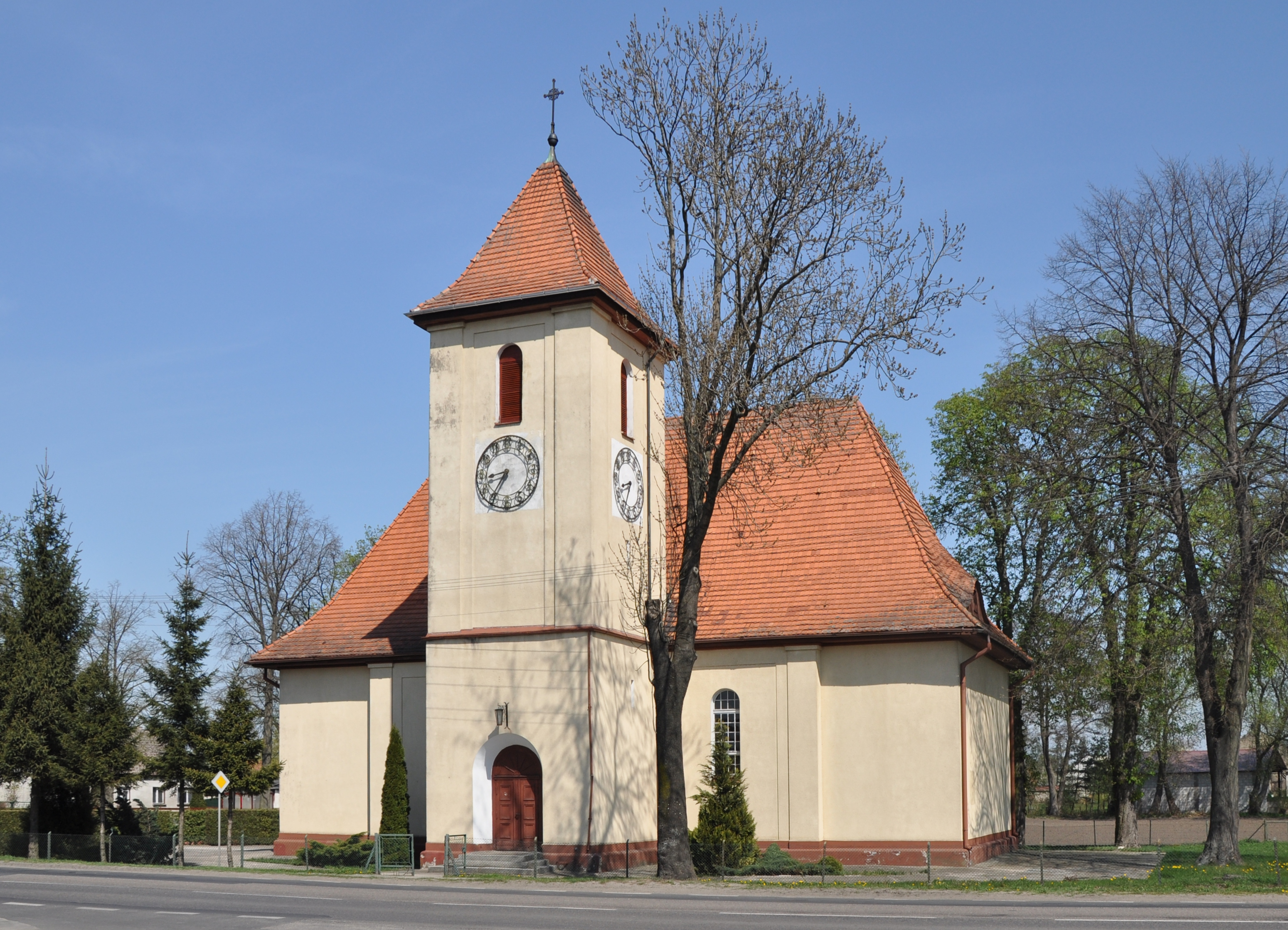 St. Anthony of Padua Roman Catholic Church in Huta, gmina Czarnków, Poland